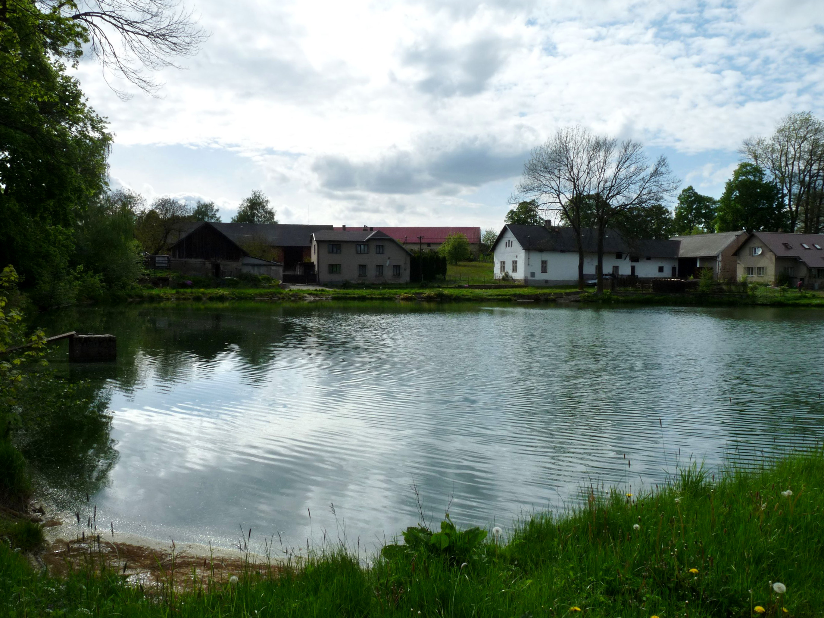 Pond in the village of Počátky, Havlíčkův Brod District, Vysočina Region, Czech Republic.